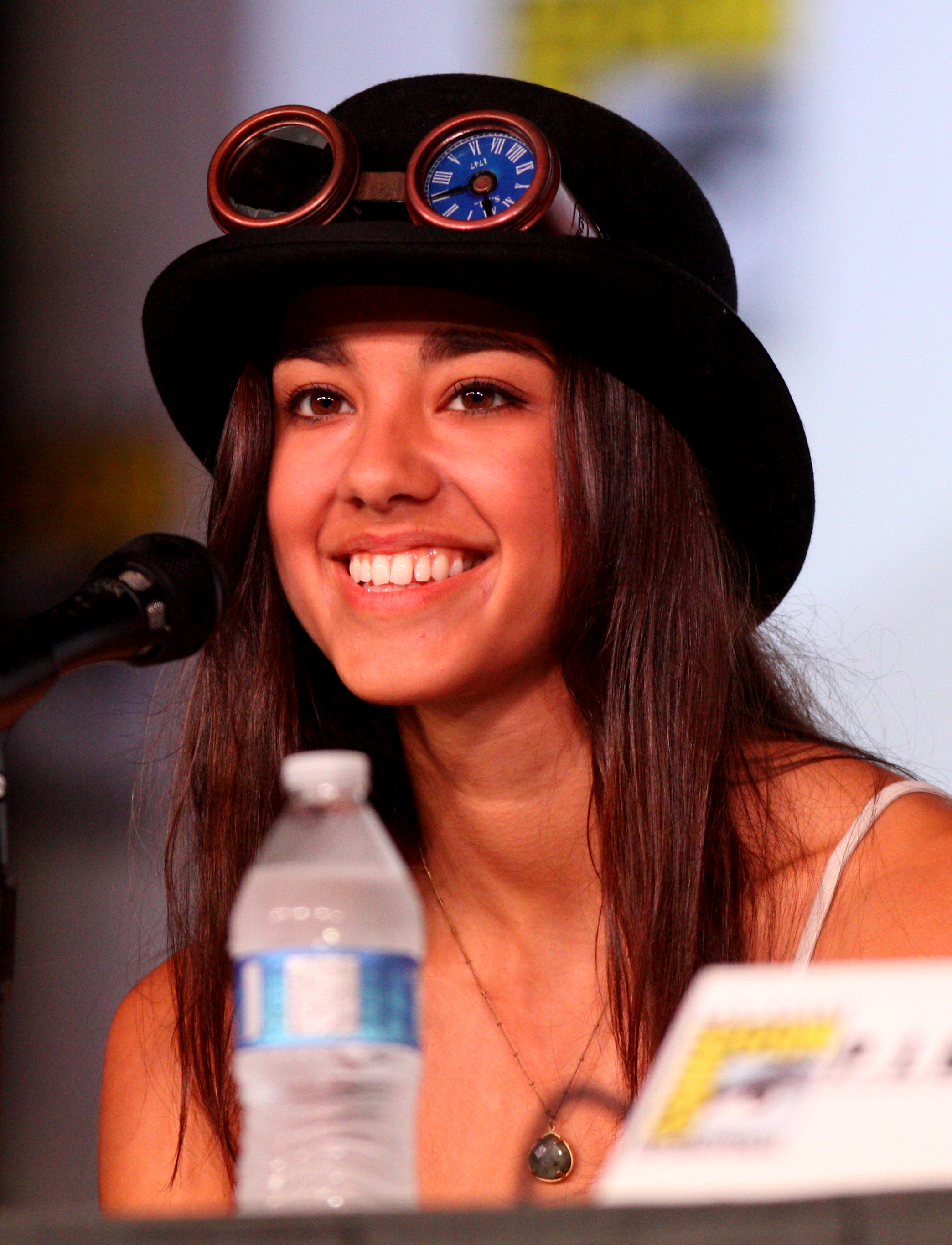 Seychelle Gabriel at the 2012 Comic-Con in San Diego.